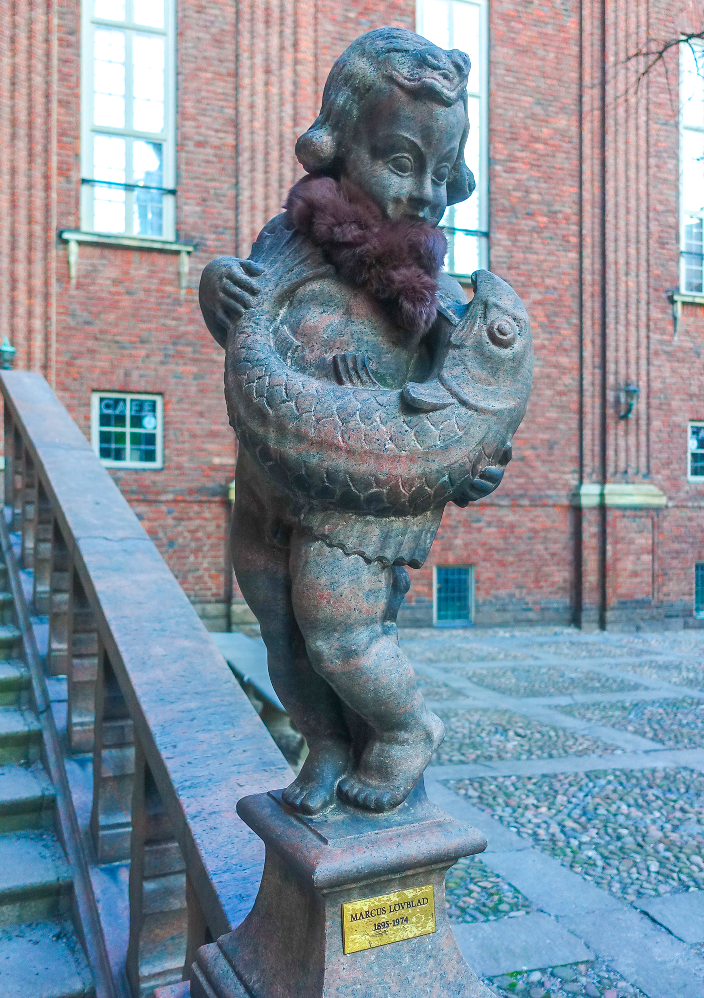 The sculptor Marcus Lövblad's fisherman's putto in the courtyard in Stockholm City Hall.